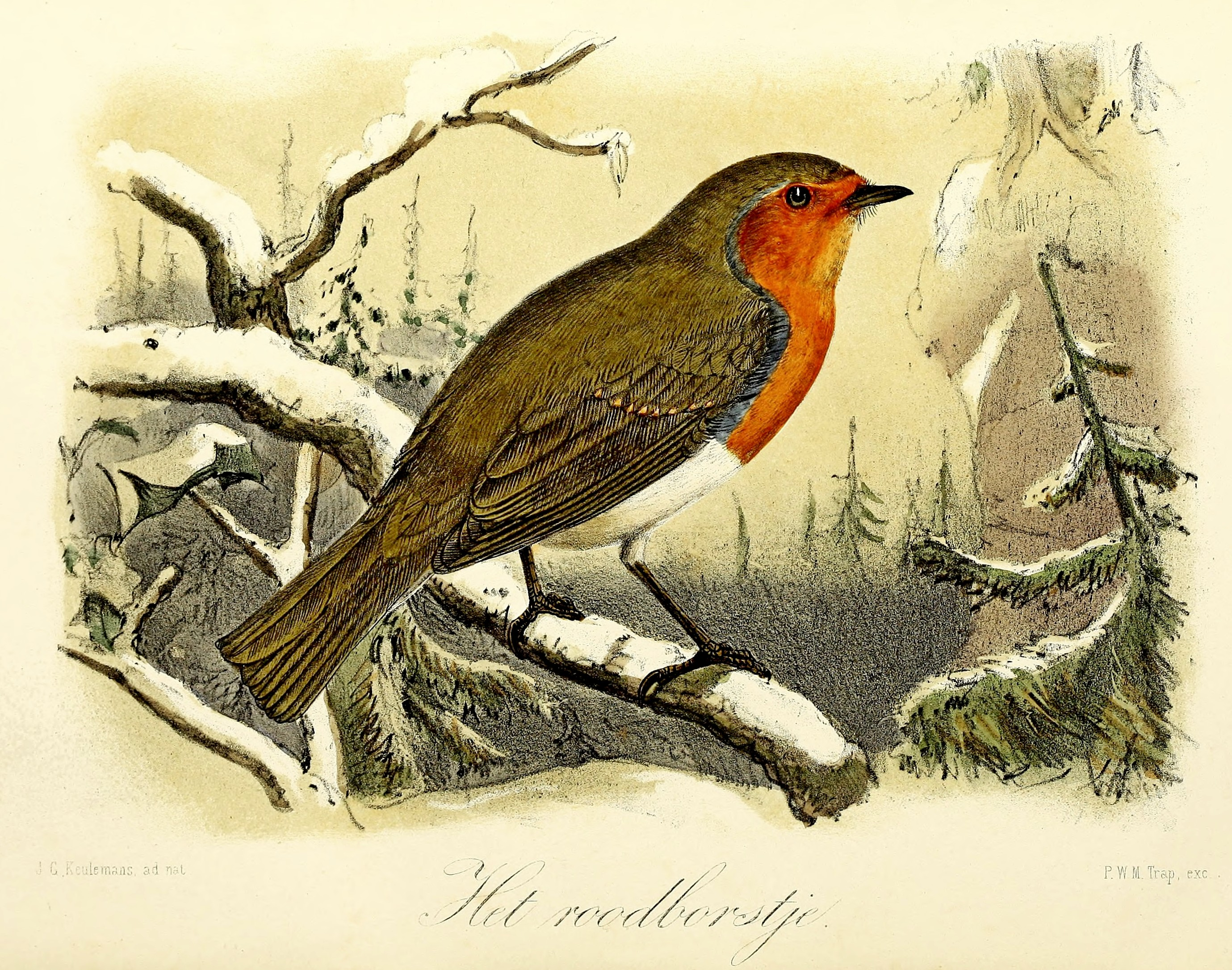 « Sylvia rubecula » = Erithacus rubecula (European robin)